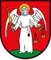 Source: "Fahnen-Gärtner GmbH, Mittersill" This image shows a flag, a coat of arms, a seal or some other official insignia. The use of such symbols is restricted in many countries. These restrictions are independent of the copyright status.